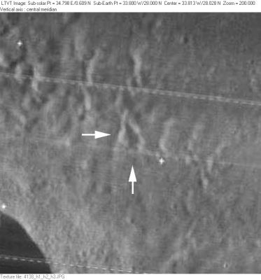 Walter crater